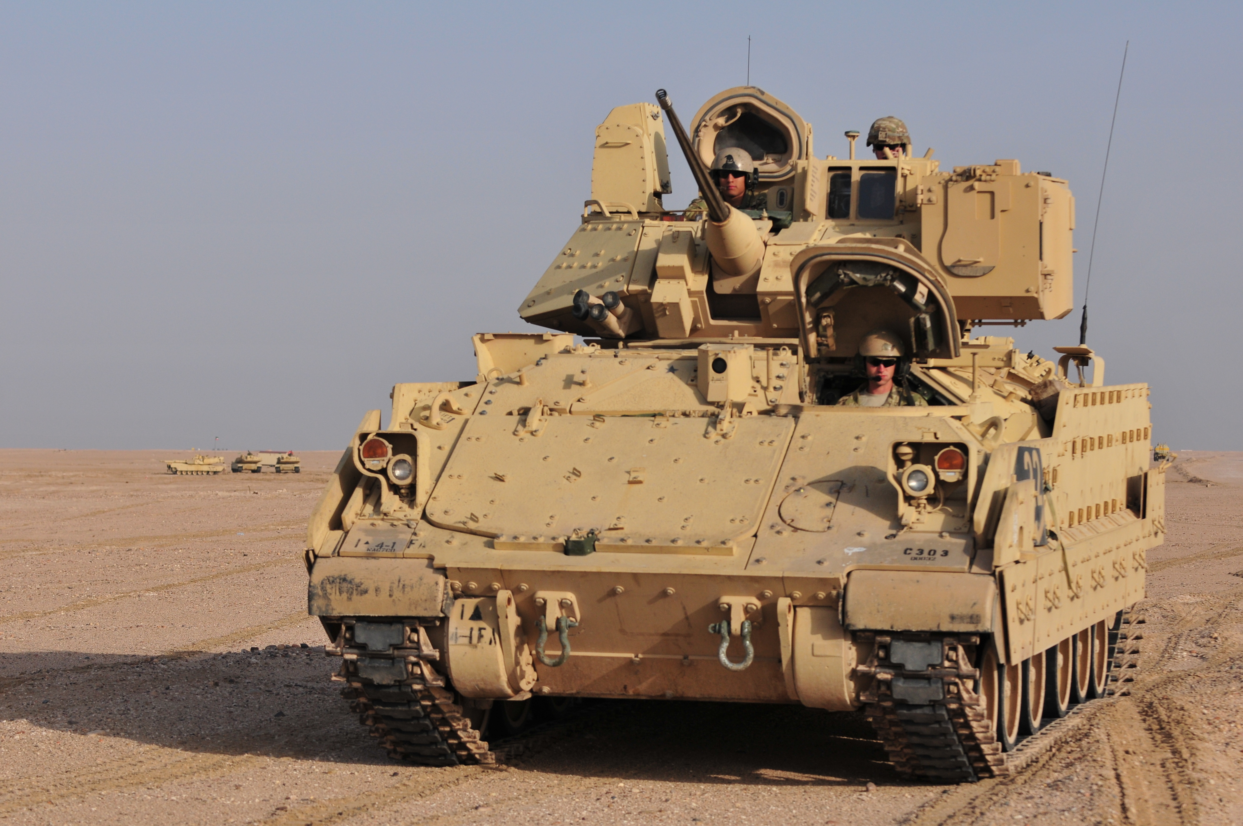 U.S. Army and Kuwaiti Land and Air forces move to engage targets during a joint combined arms live-fire exercise near Camp Buehring, Kuwait Dec. 6-7, 2016. The multi-day exercise was designed to test the efficiency of the forces abilities to identify and eliminate enemies’ anti-aircraft capabilities. Around 30 M1 Abrams Main Battle Tanks, two Kuwaiti AH-64 Apache helicopters, Several Bradley Armored Fighting Vehicles, scout sniper teams, 120mm mortar teams, and M109 Self Propelled Howitzer artillery fire, assaulted mock enemy positions during the exercise. (U.S. Army photo by Sgt. Aaron Ellerman) Unit: U.S. Army Central